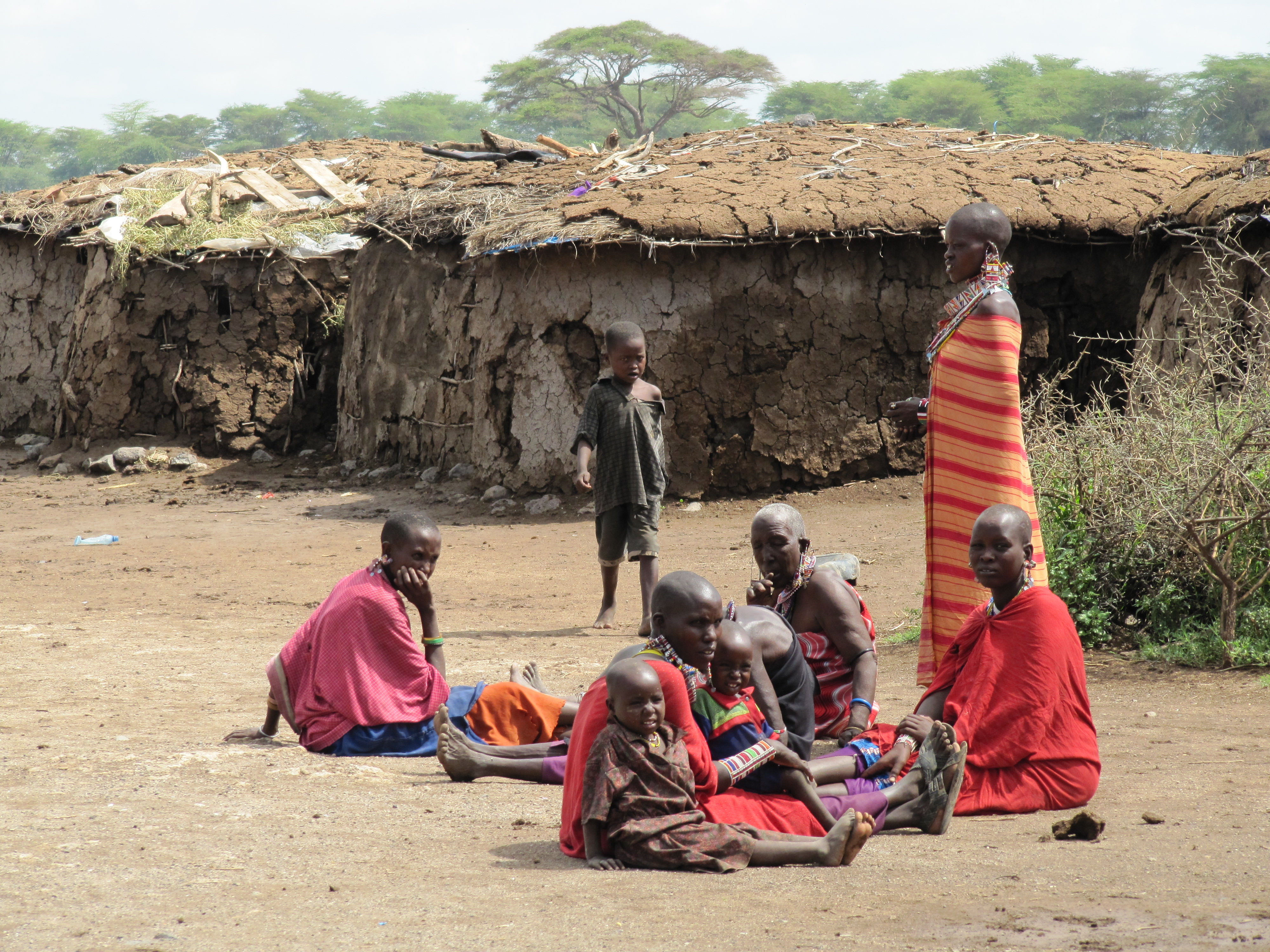 Masai women and children. Masai village, Amboseli National Park, Kenya